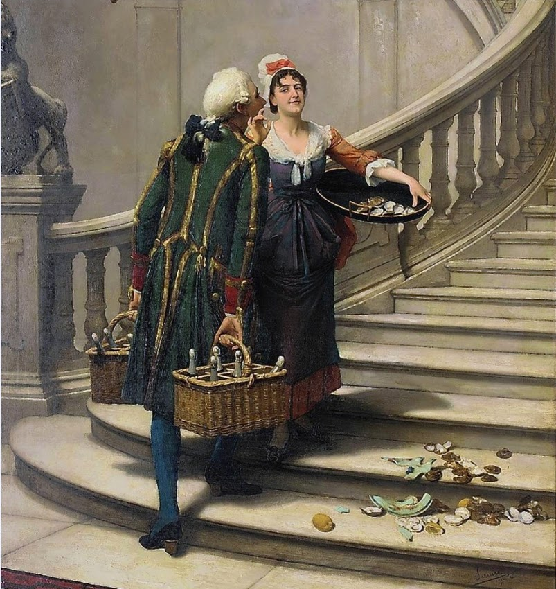 A distraction from chores